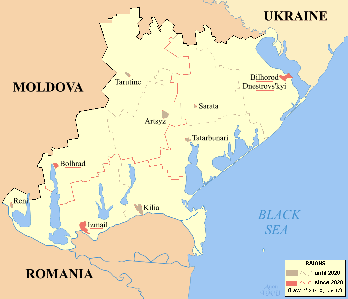 Administrative divisions of Buceag / southern Bessarabia / western Odesa Oblast